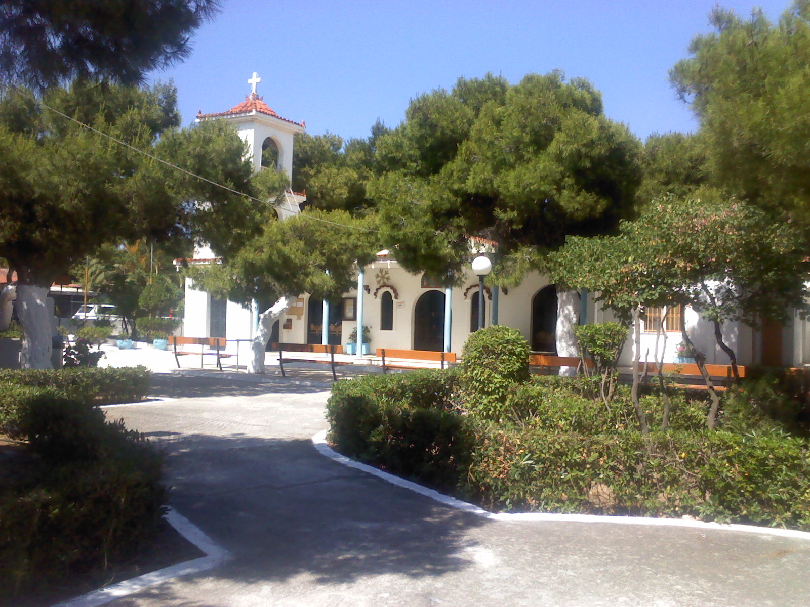 Agios Nikolaos Artemida